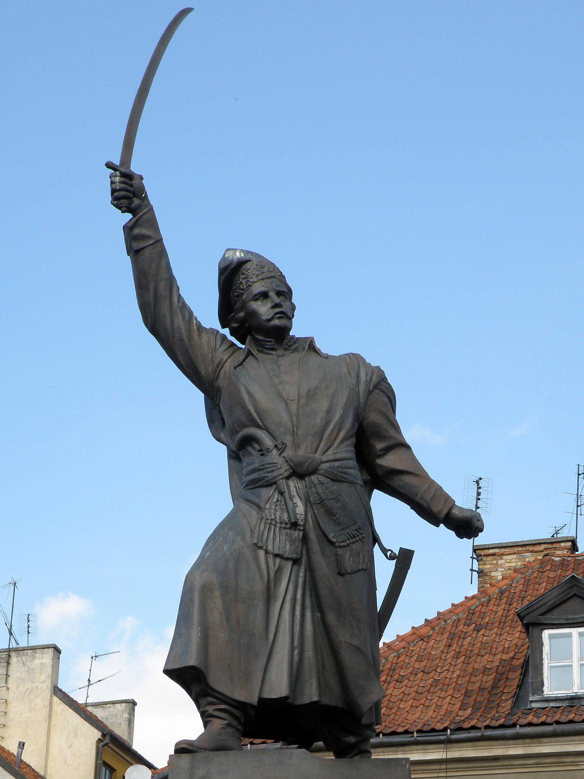 Poland, Warsaw, Podwale Street, Jan Kiliński Monument